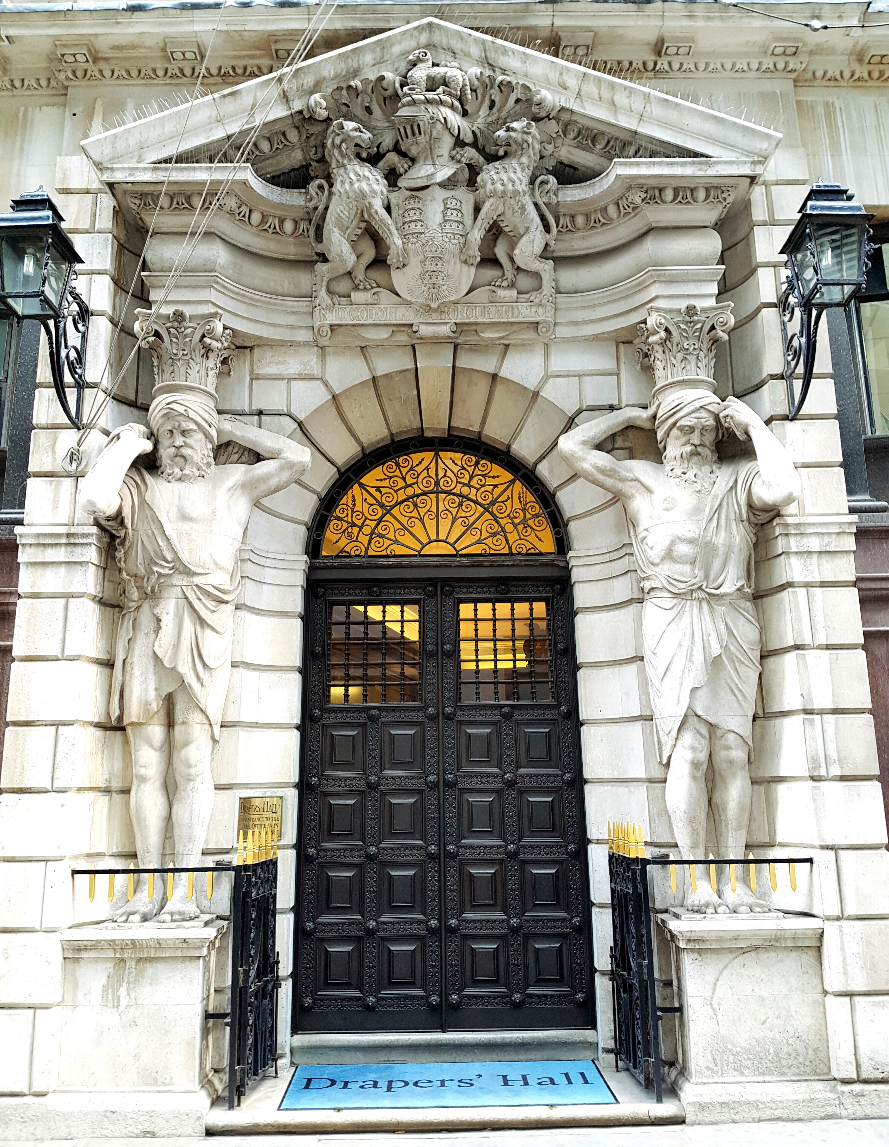 Drapers Hall